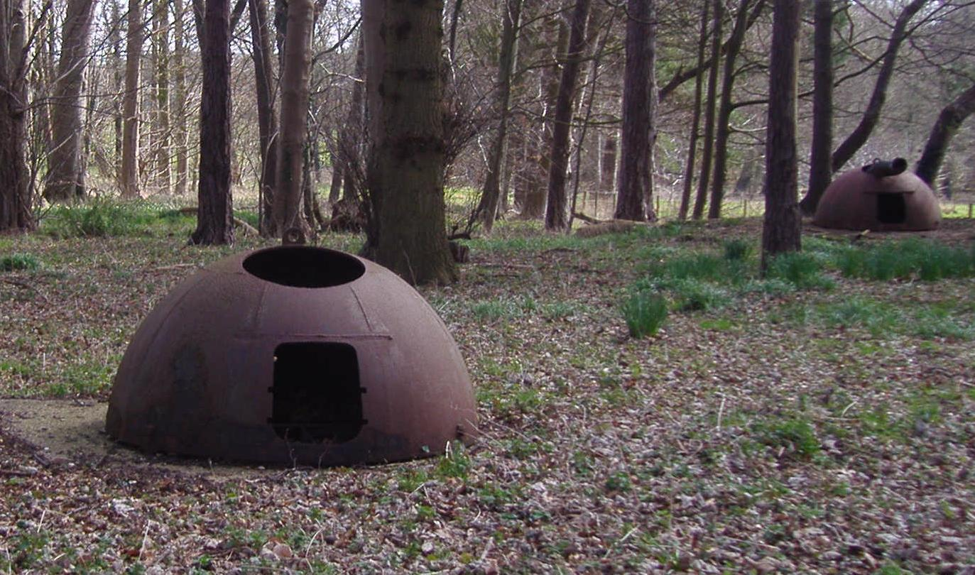 Alan Williams Turret's